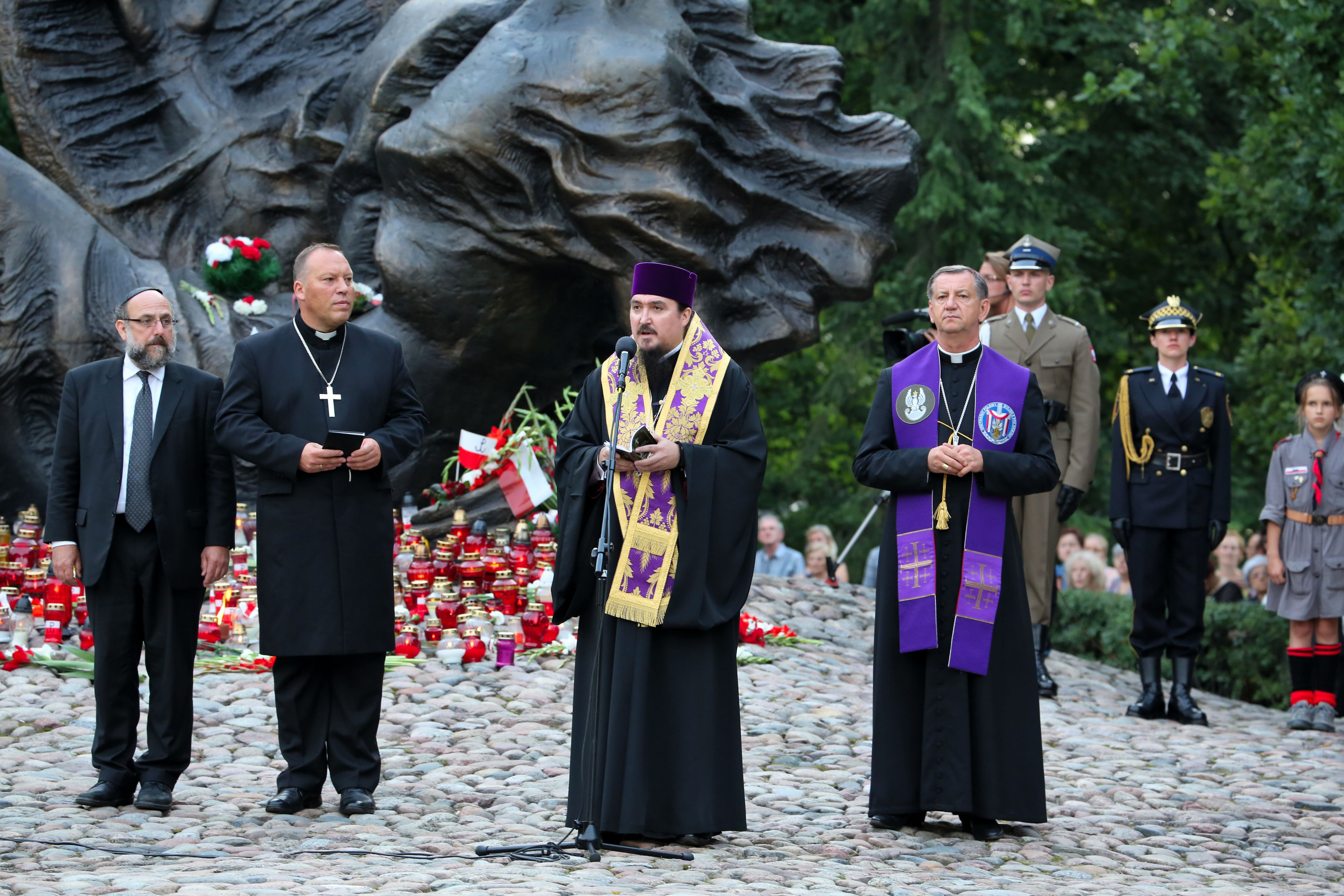 70th anniversary of the Warsaw Uprising celebrations at Polegli Niepokonani Monument in Warsaw